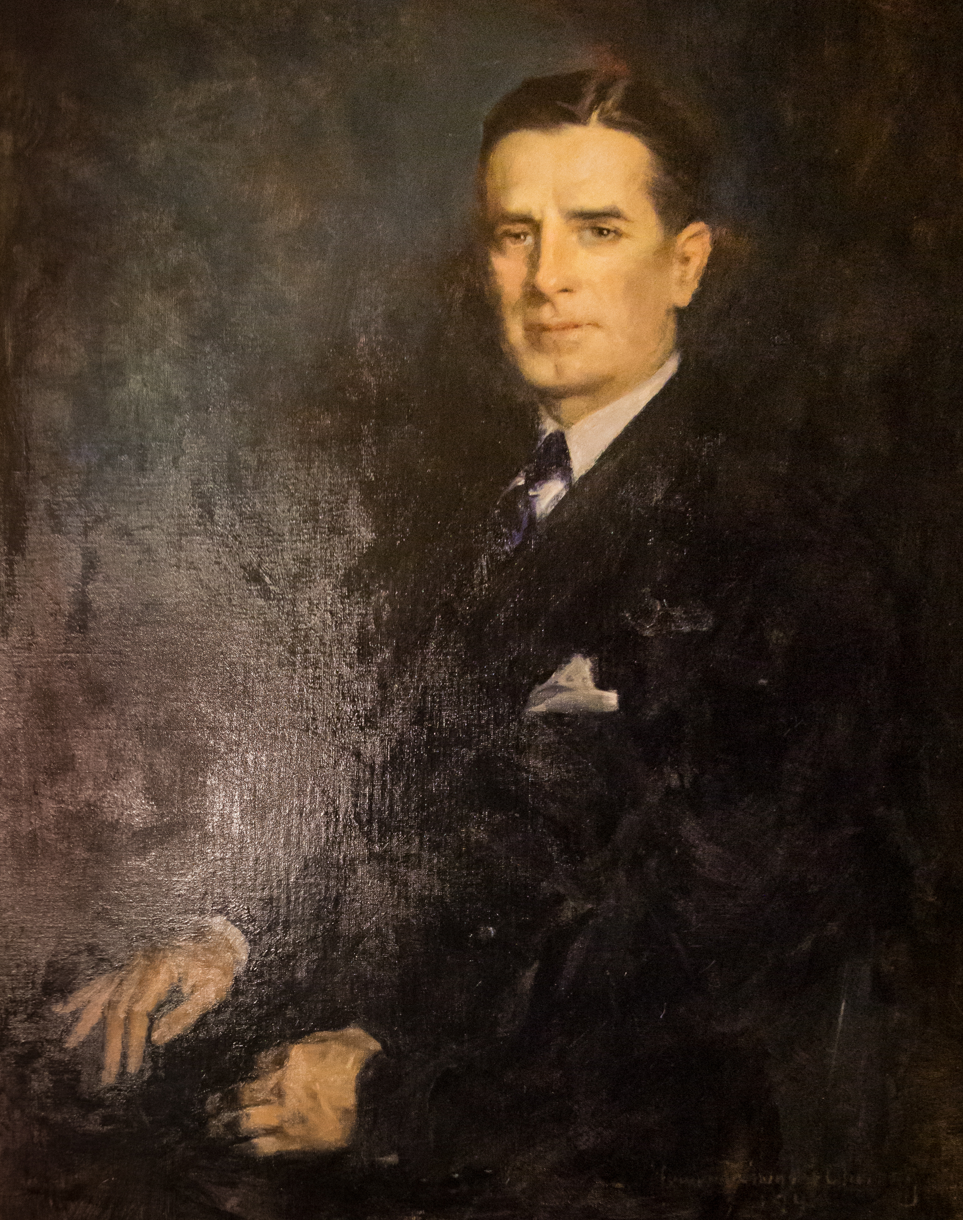 William Prentice Cooper, Tennessee Governor 1939-1945. Tennessee State Capitol, Nashville, TN.